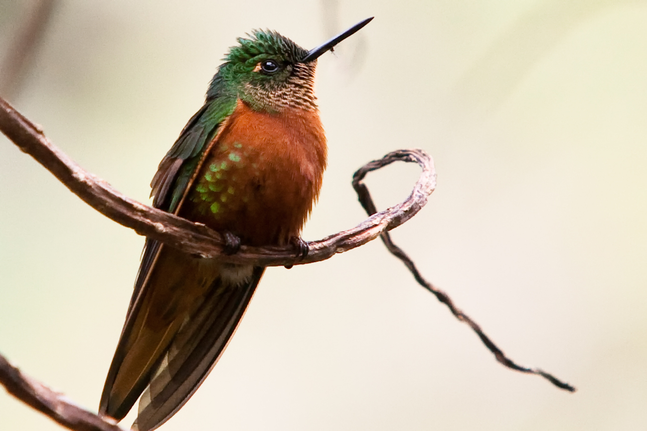 Chestnut-breasted Coronet in the garden of Sanctuary Lodge Hotel, Machu Picchu, Peru.